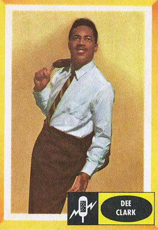 Trading card photo of Dee Clark. In 1960, Fleer gum cards issued a series of recording stars. He was part of their recording stars cards.